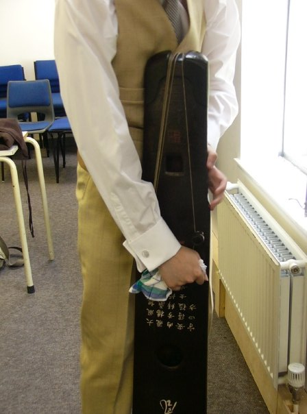 Photo of Charlie Huang stringing a guqin in the traditional way.